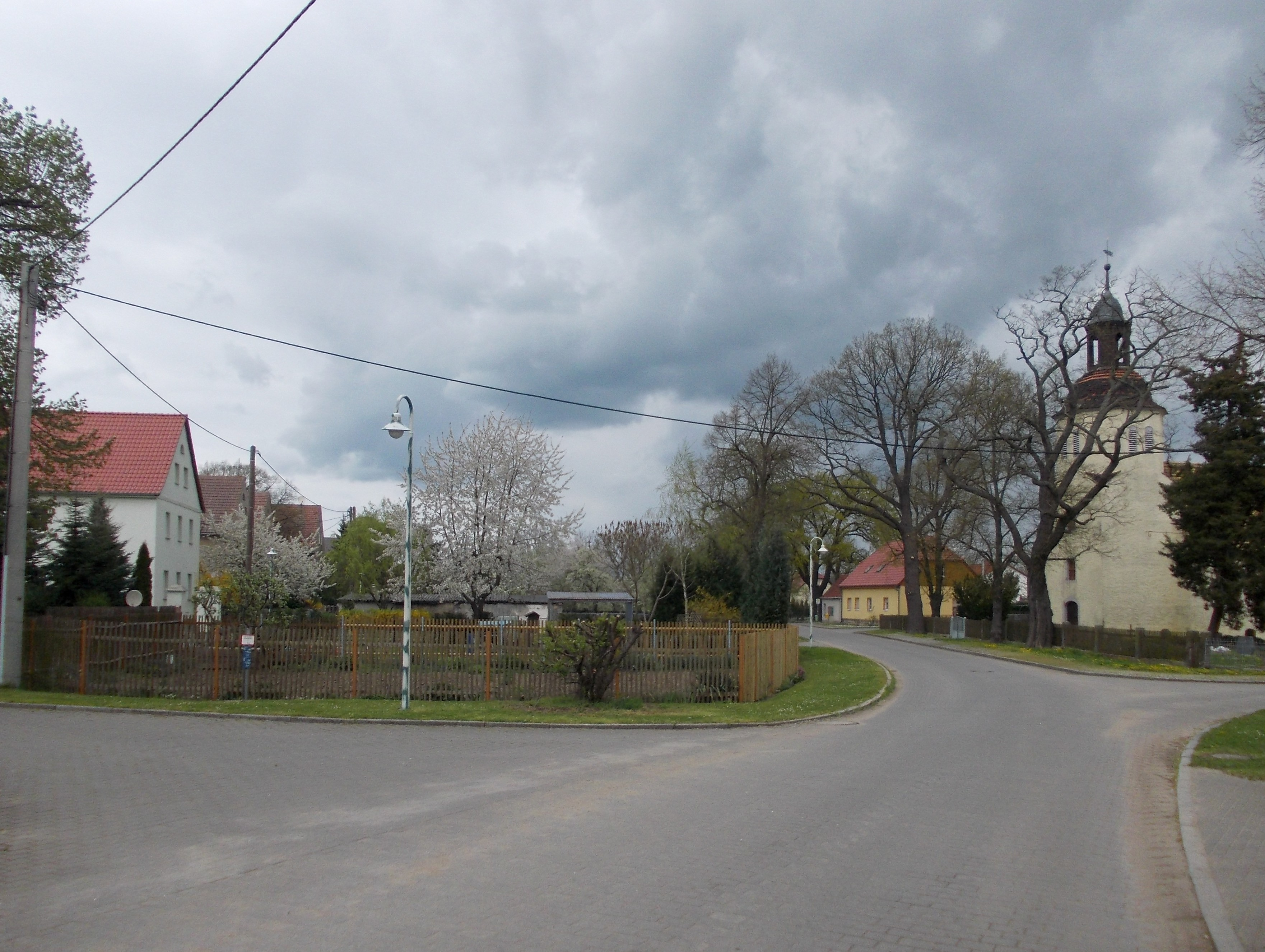 Hauptstrasse in Mockritz (elsnig, Nordsachsen district, Saxony)